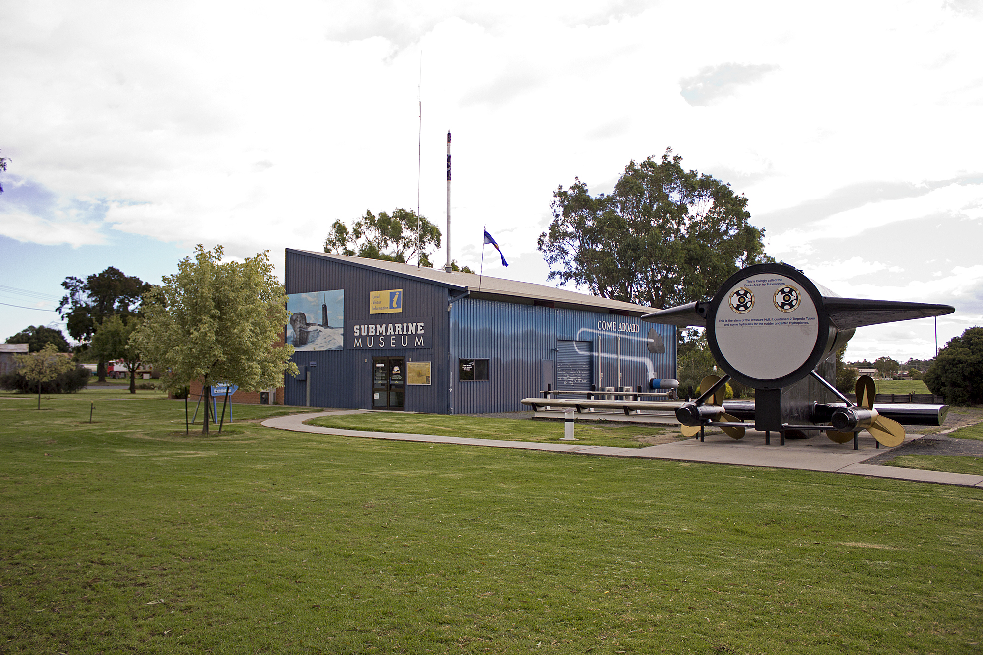 Submarine Museum and the HMAS Otway (S 59) "Ducks Arse" in Germanton Park in Holbrook, New South Wales.